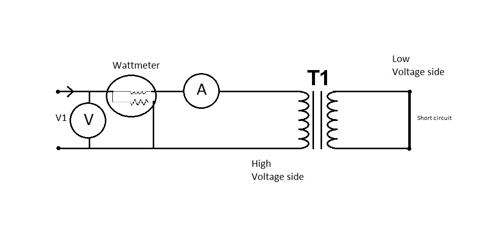 The watt meter, ammeter and voltmeter are connected as shown in the circuit and the secondary is short circuited.